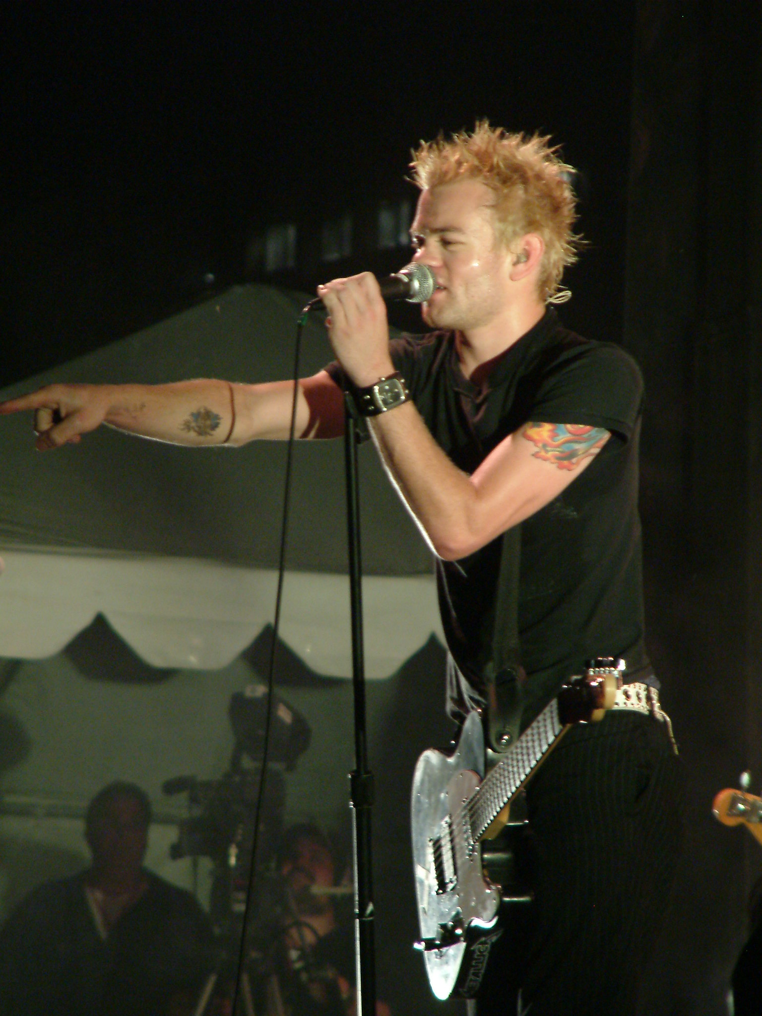 Deryck Whibley at the Ottawa Bluesfest in 2003.